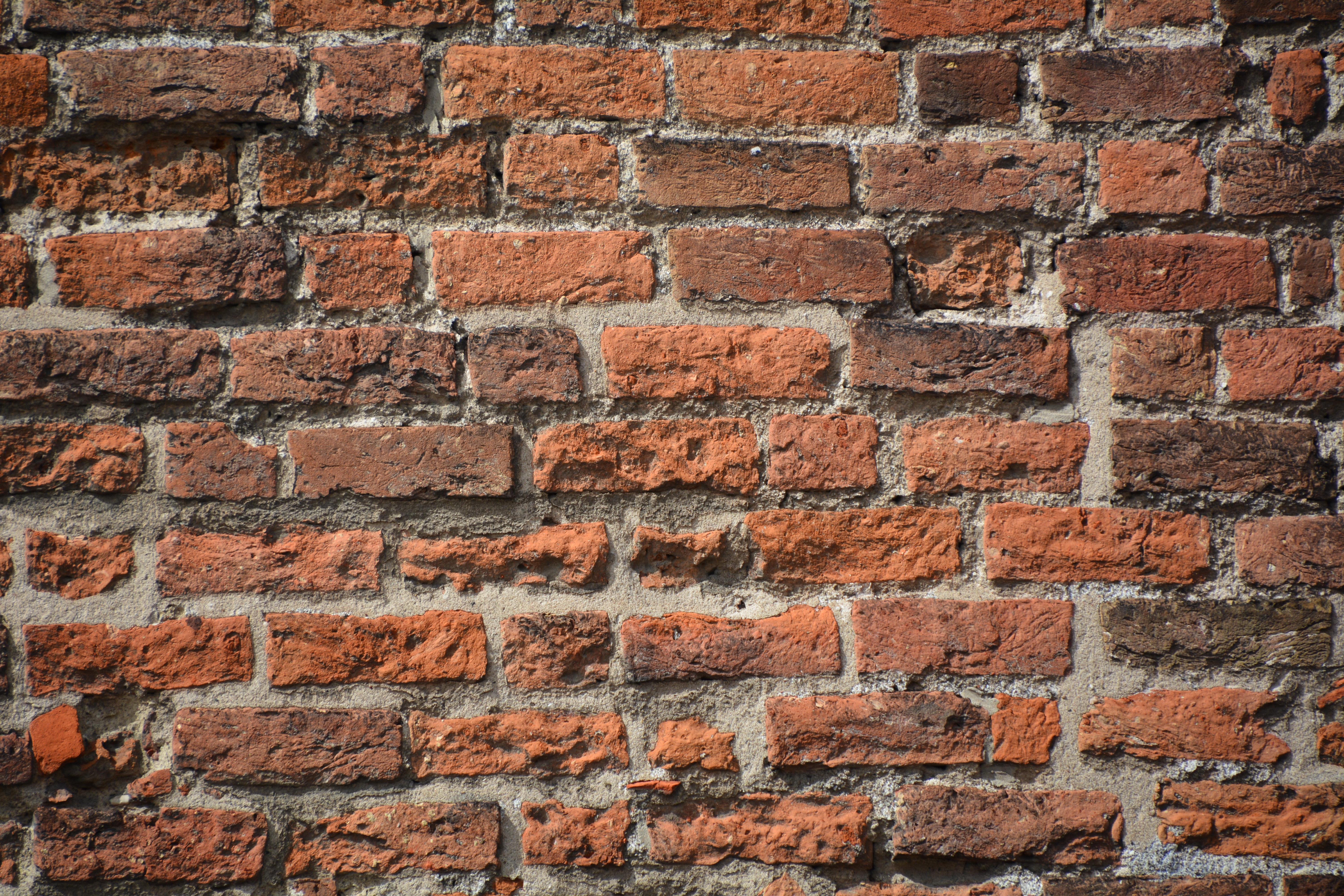 Medeltida tegel på Krognoshuset från 1300-talet